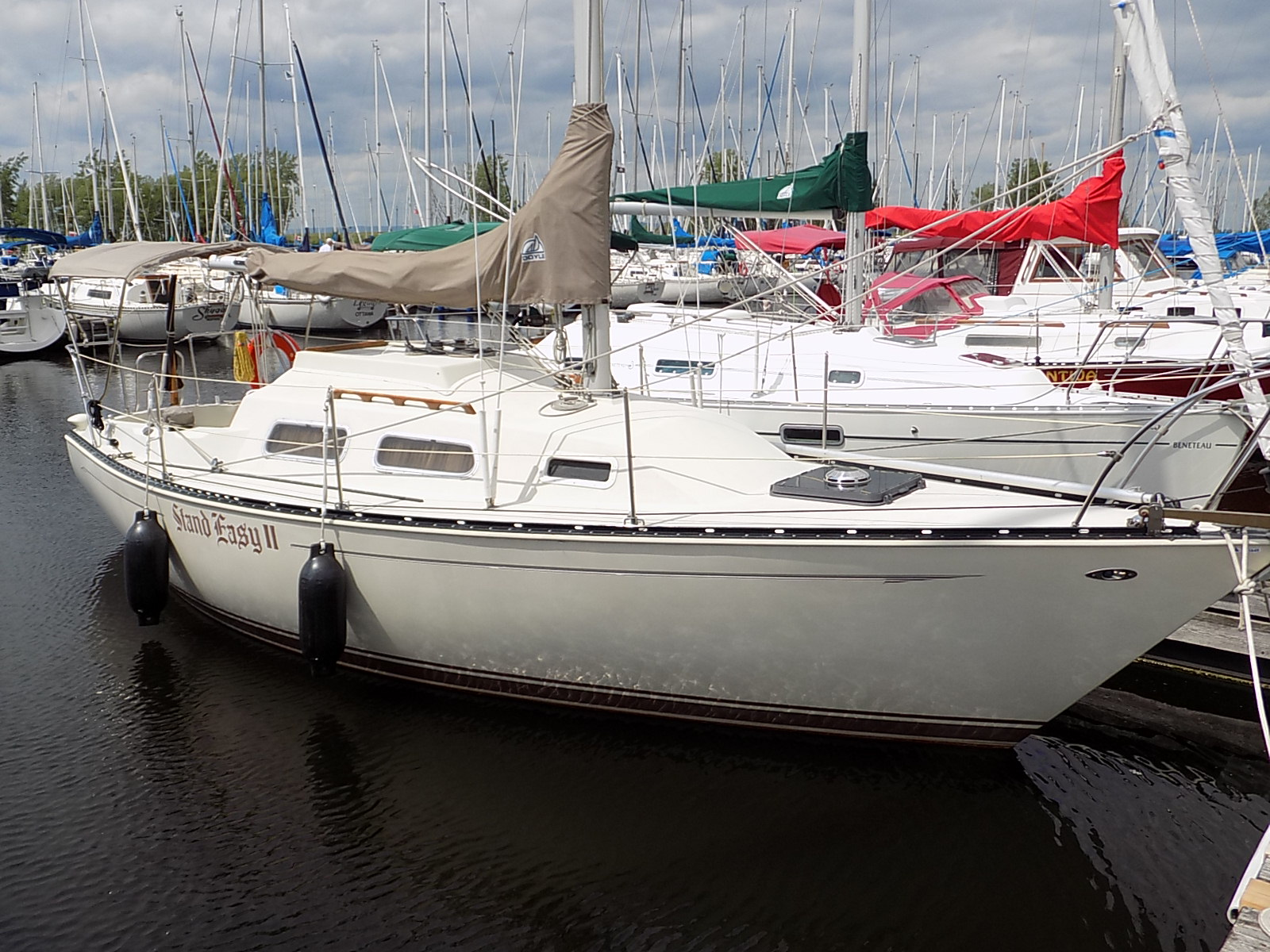 A Mirage 27 sailboat named Stand Easy II.